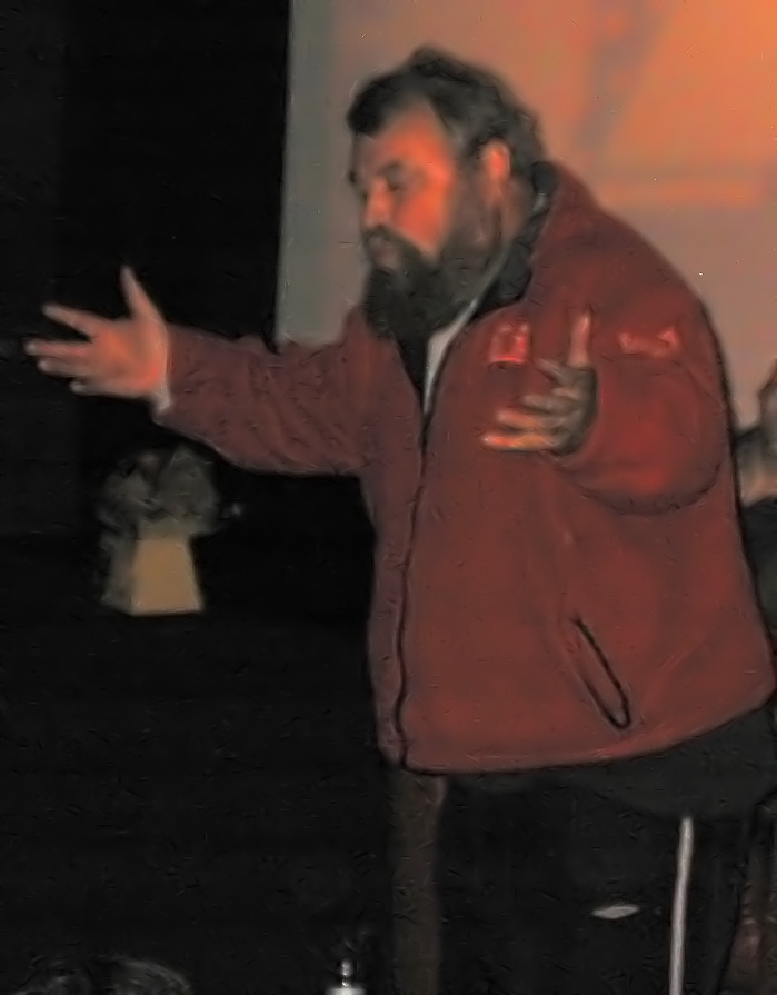 Brian Blessed at Cambridge Film Festival, cropped version of photo